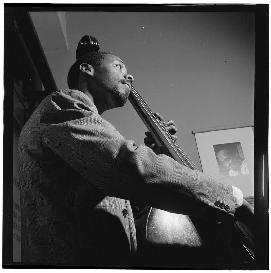 John Simmons, William P. Gottlieb's office, New York, N.Y.